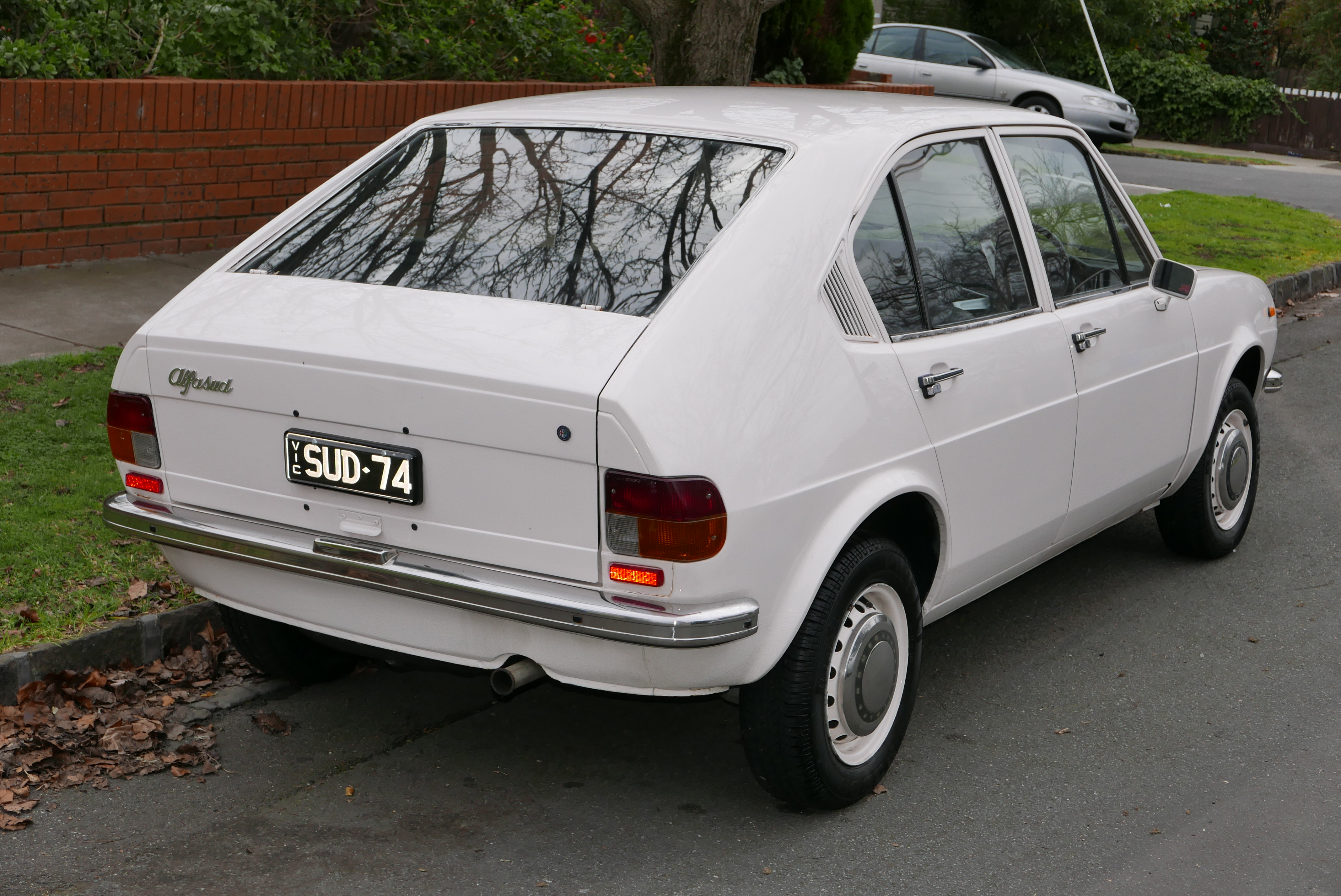 1974 Alfa Romeo Alfasud 4-door sedan. Photographed in Kew, Victoria, Australia. Vehicle registration enquiry results Jurisdiction Victoria Registration SUD74 Chassis code AS5152035901A Engine code AS301000155407 Compliance date 1974-12 Year of manufacture 1974